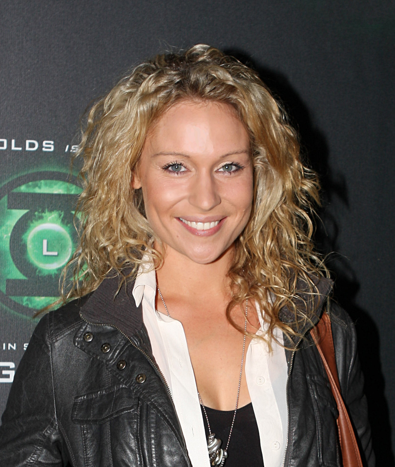 Australian actress Lisa Gormley at the premier of movie Green Lantern.